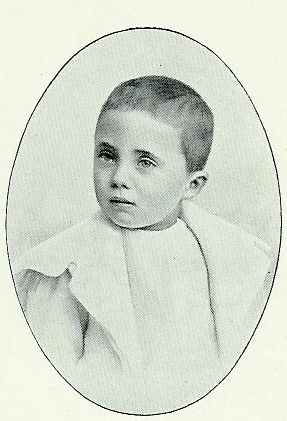 Prince Josias of Waldeck-Pyrmont at the age of about 3 years